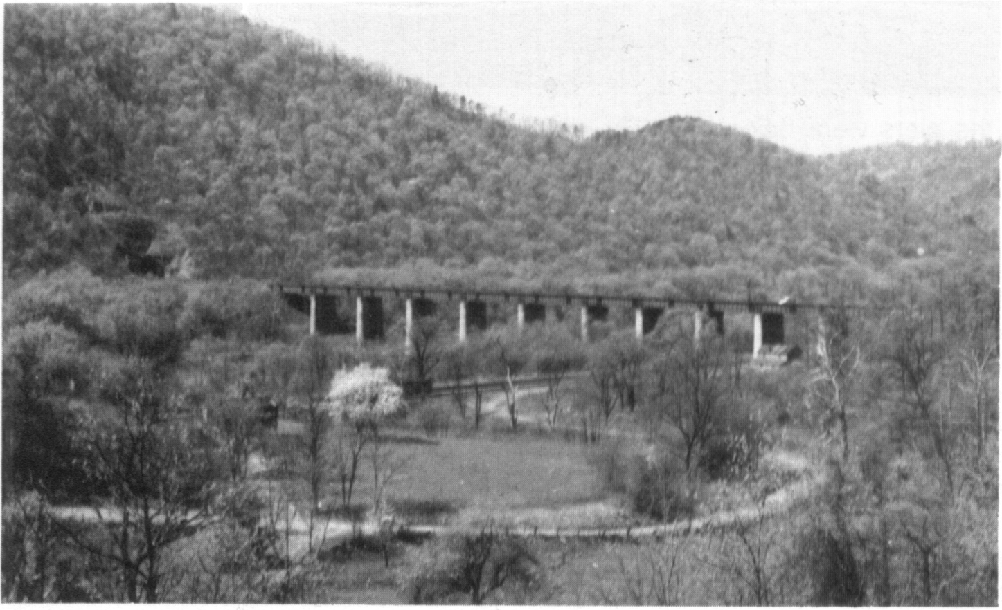 Magnolia Photo credit: the Baltimore & Ohio Historical Society (BORHS)